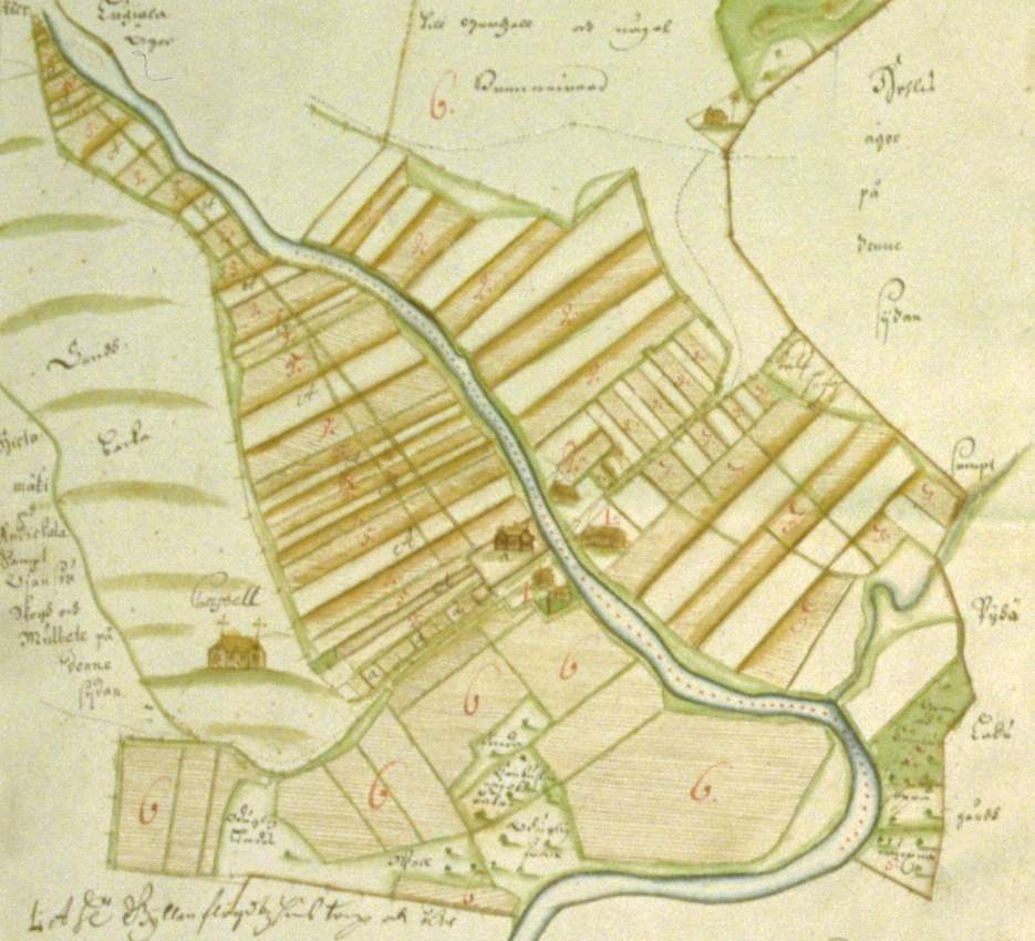 A cadastral map (year 1687) of Hietamäki village, Mietoinen, Finland. Image from Heikki Rantatupa - Historialliset kartat map collection